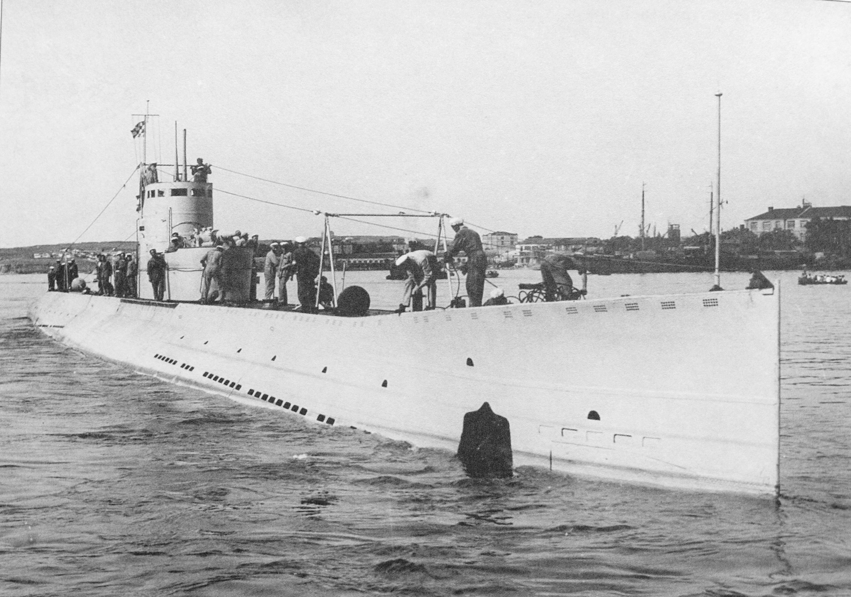 Soviet submarine L-4 Garibaldiec